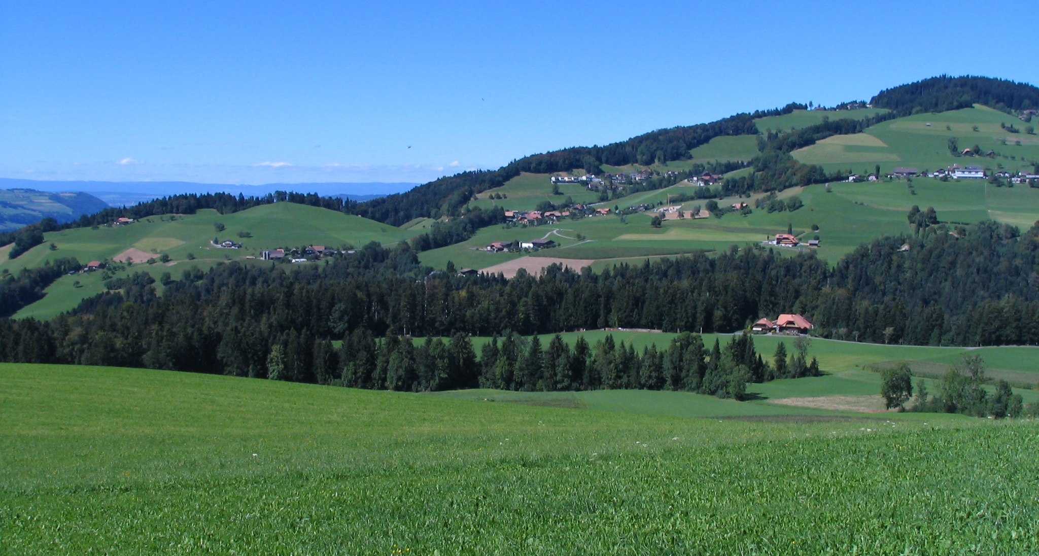 Bleiken bei Oberdiessbach, Village in the Canton of Berne, Switzerland